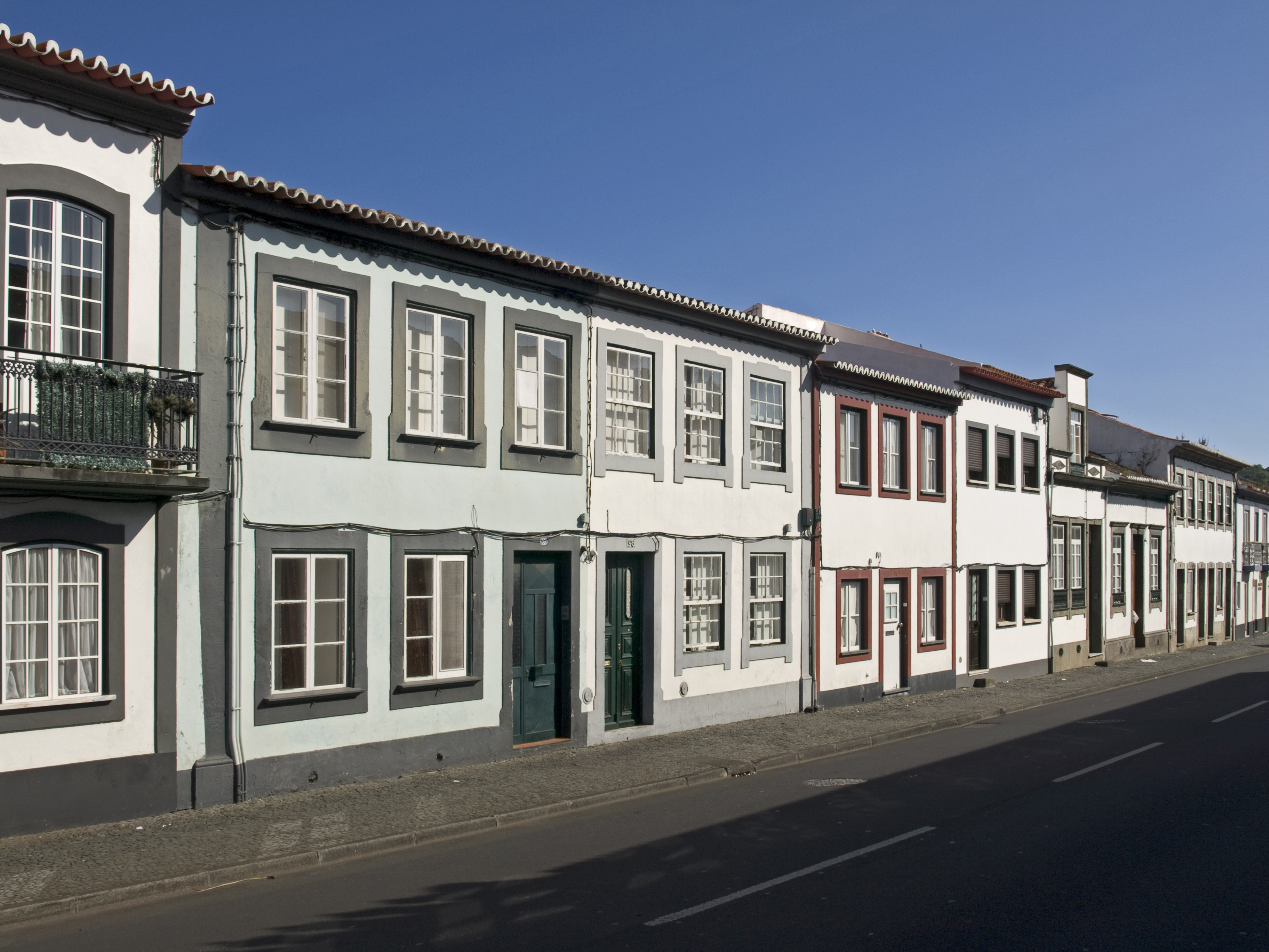 Rua da Guarita, 100 (green door), Angra do Heroismo